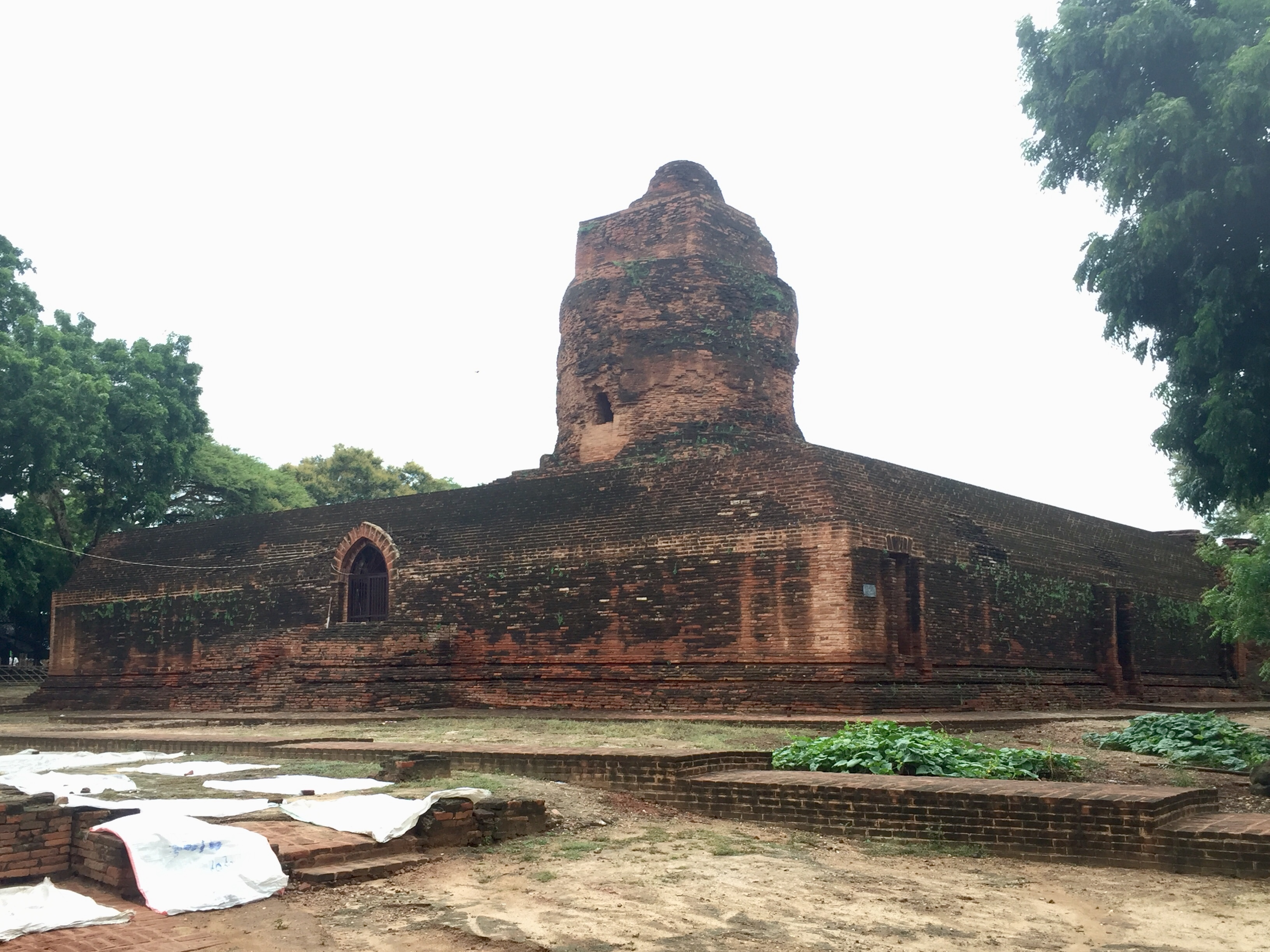 အရှေ့ဖက်လိပ်ဘုရား စေတီပုထိုးအမှတ် = ၁၀၃၀/၄၂၀